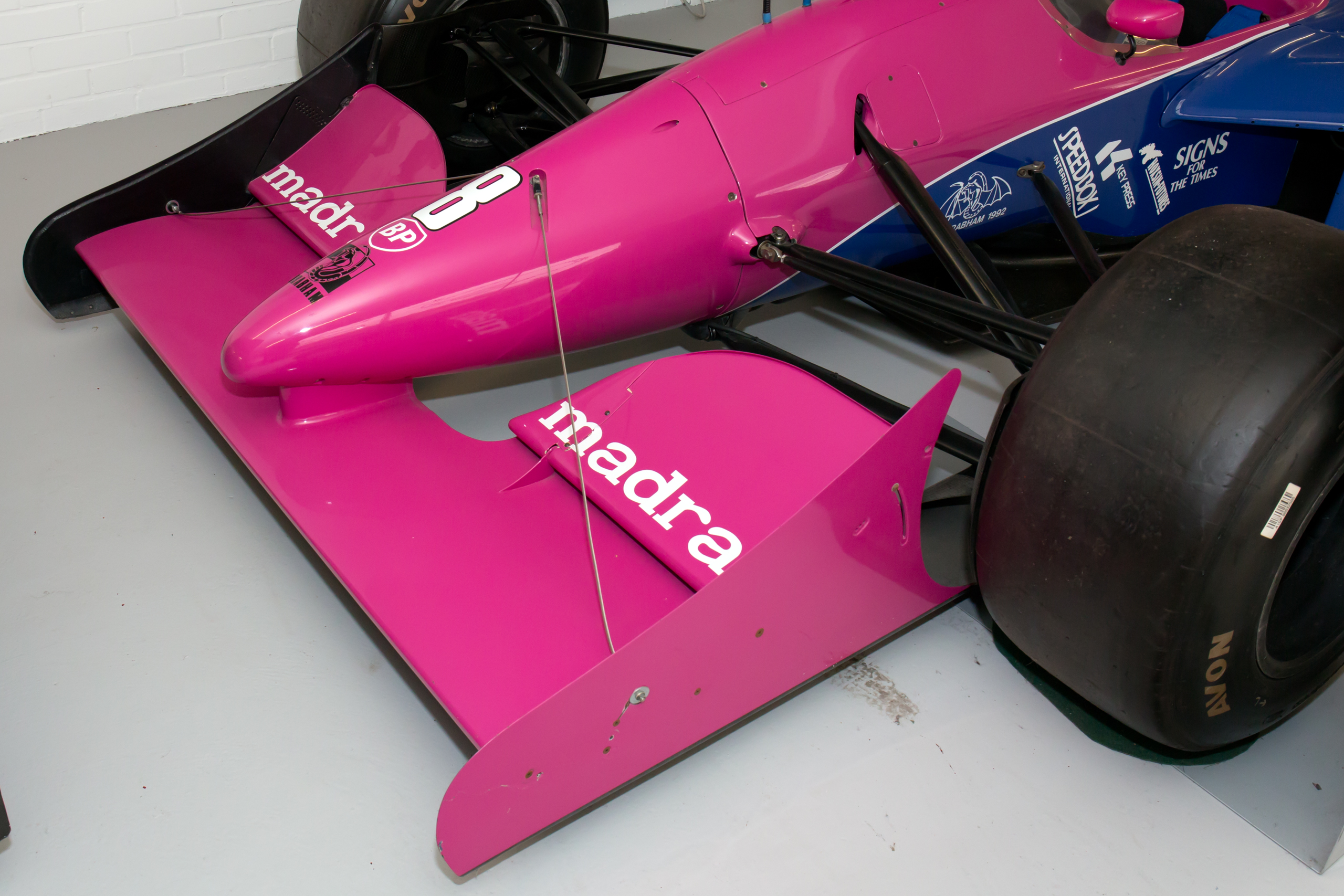 1992 Brabham BT60B (#8 Damon Hill), front wing